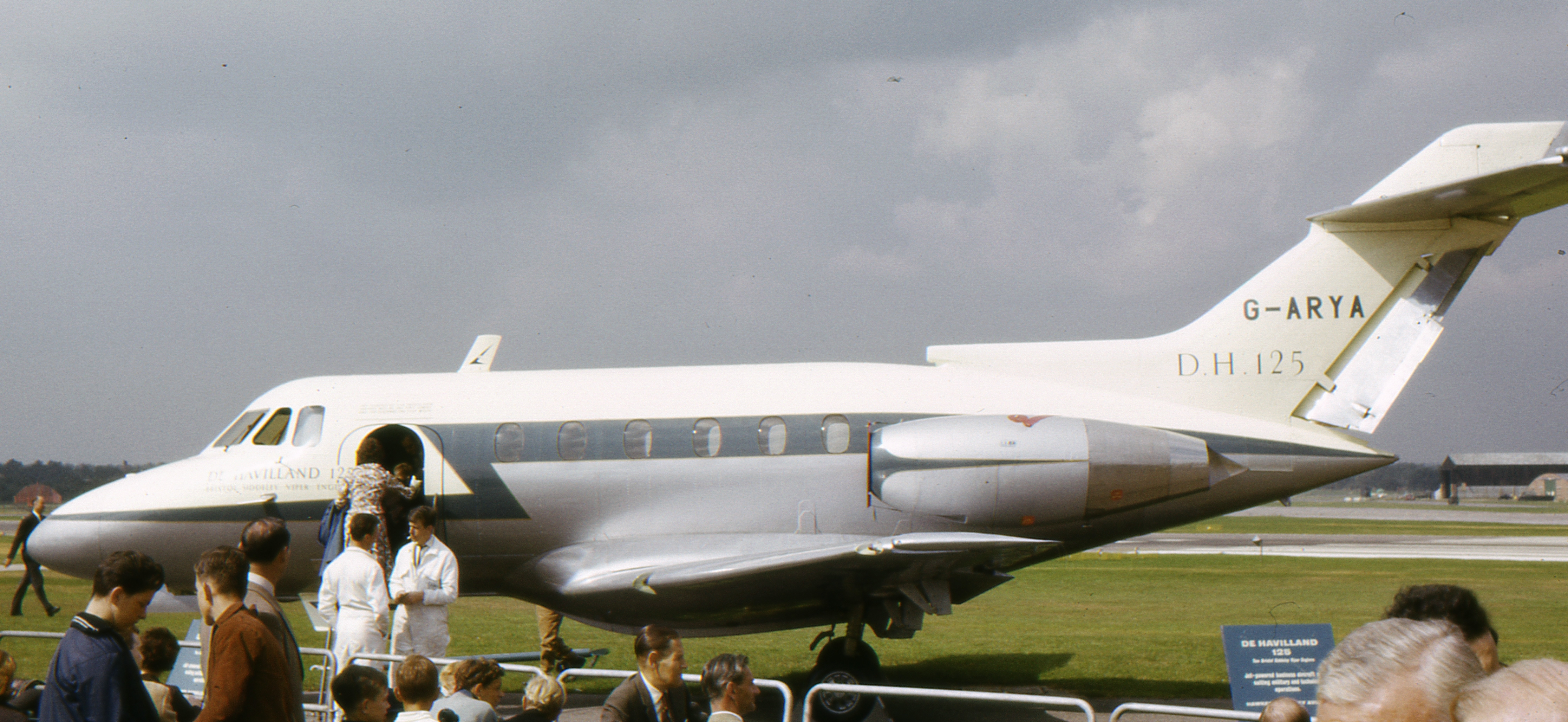 The first prototype de Havilland DH.125, G-ARYA, at the SBAC show at Farnborough on 8 September 1962, only three weeks after its first flight on 13 August.